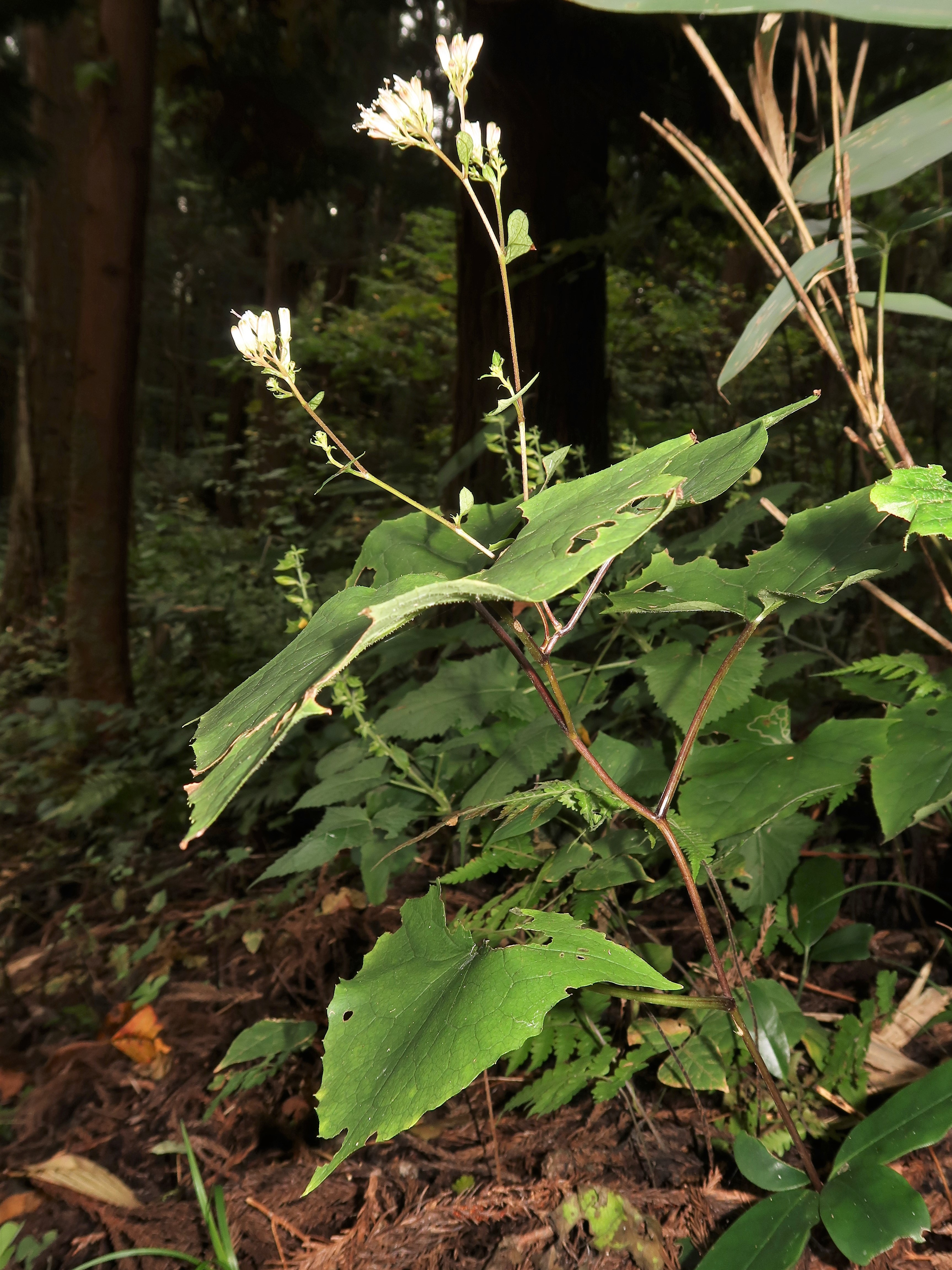 Parasenecio katoanus, Tsuruoka city, Yamagata pref., Japan